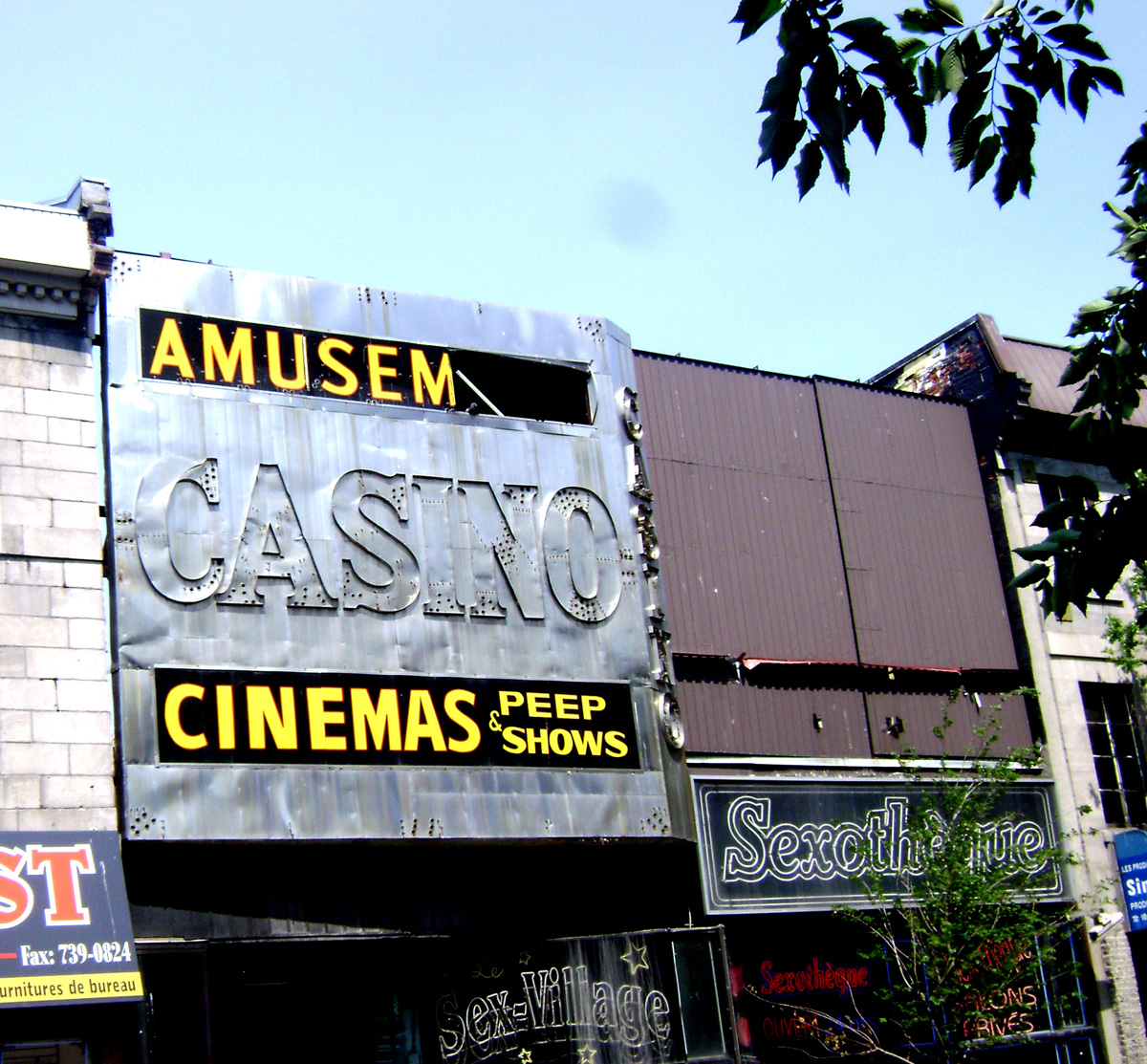 Peep show and erotic cinema's sign. Saint-Laurent Boulevard in Montreal, Quebec, Canada.